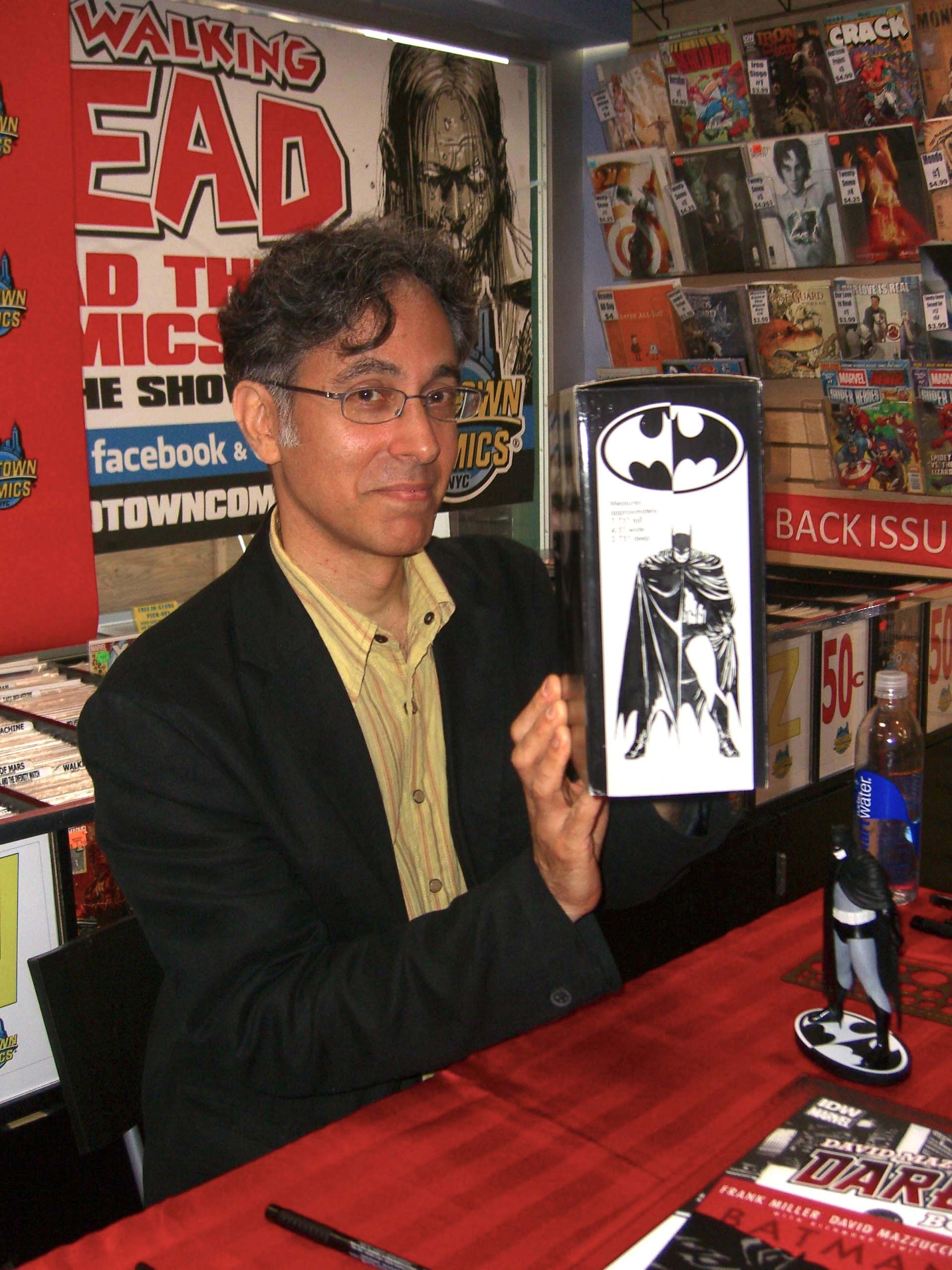 Comic book creator David Mazzucchelli at a June 28, 2012 signing for Daredevil Born Again: Artist's Edition at Midtown Comics Downtown in Manhattan. In the photo, Mazzucchelli is holding up the Batman statue based on his artwork in the Batman: Black and White series. This photo was created by Luigi Novi. It is not in the public domain, and use of this file outside of the licensing terms is a copyright violation.